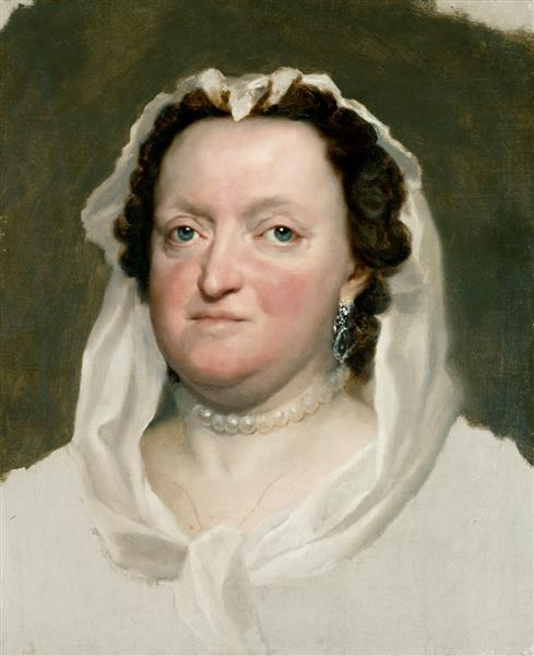 Maria Josepha of Austria (1699–1757), Queen of Poland.